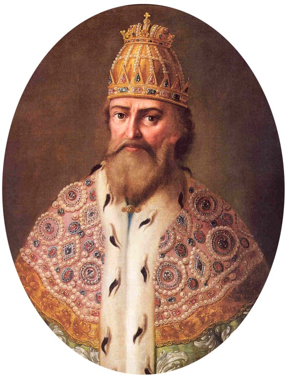 Tsar Ivan IV. Vasilyevich of Russia (1533/1547 - 1584) "Портрет царя Иоанна IV Васильевича Грозного" Автор: Неизвестный художник. Середина XVIII в. ММК. 145х84. Ж-1912